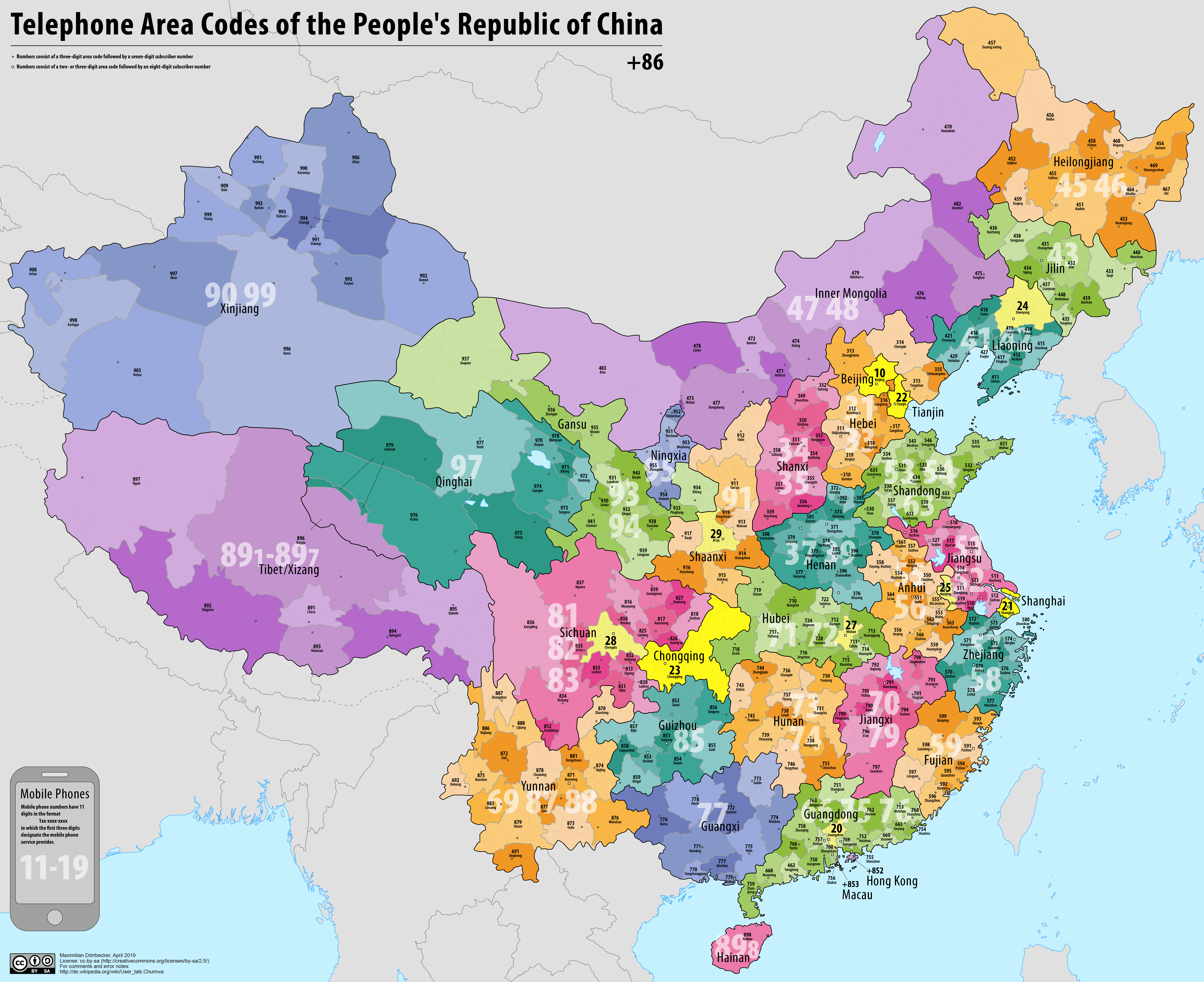 Map of the telephone dialing codes of the People's Republic of China